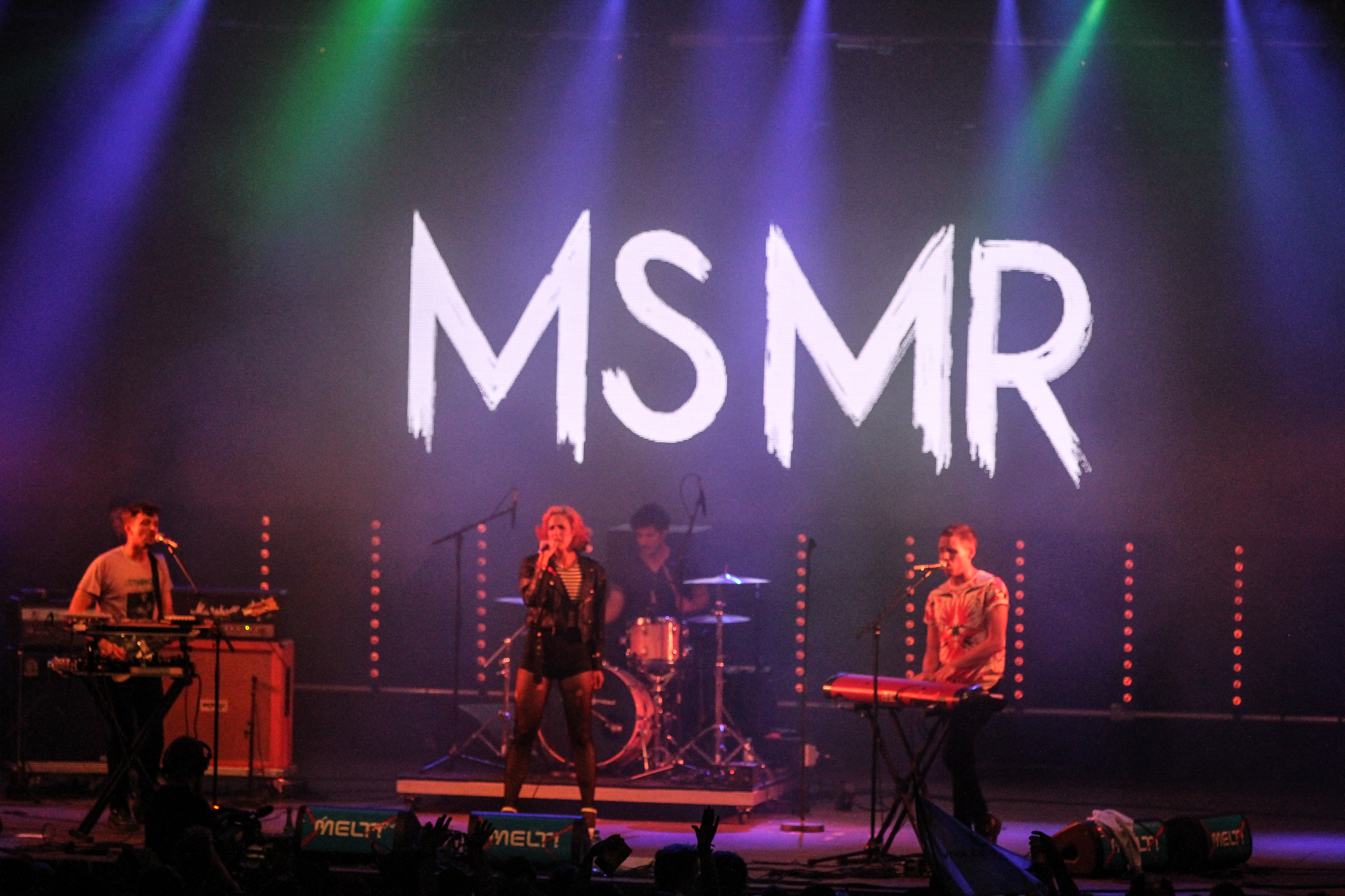 MS MR performing at Melt! Festival 2013